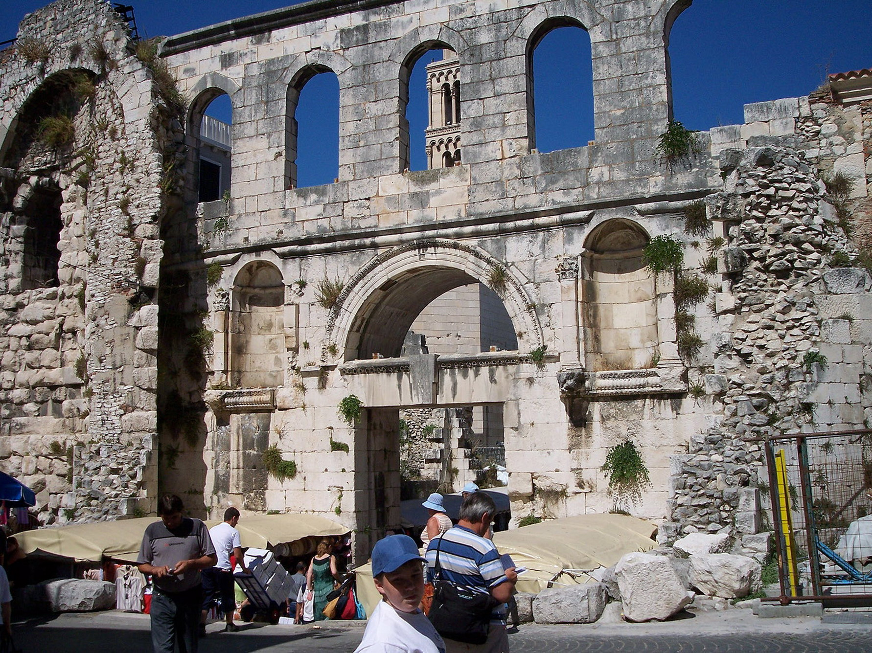 Roman walls in Split (Croatia)